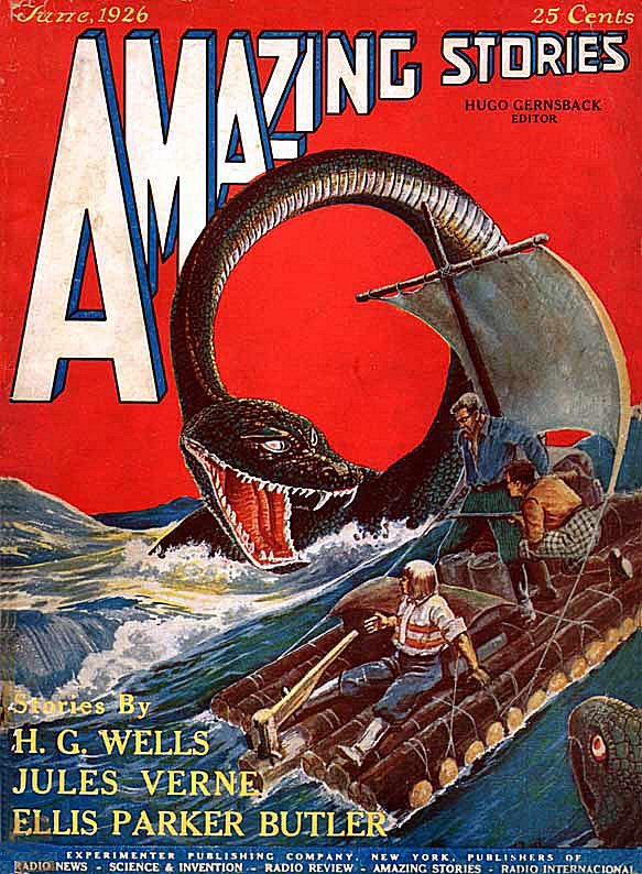 Cover of the pulp magazine Amazing Stories (June 1926, vol. 1, no. 3).